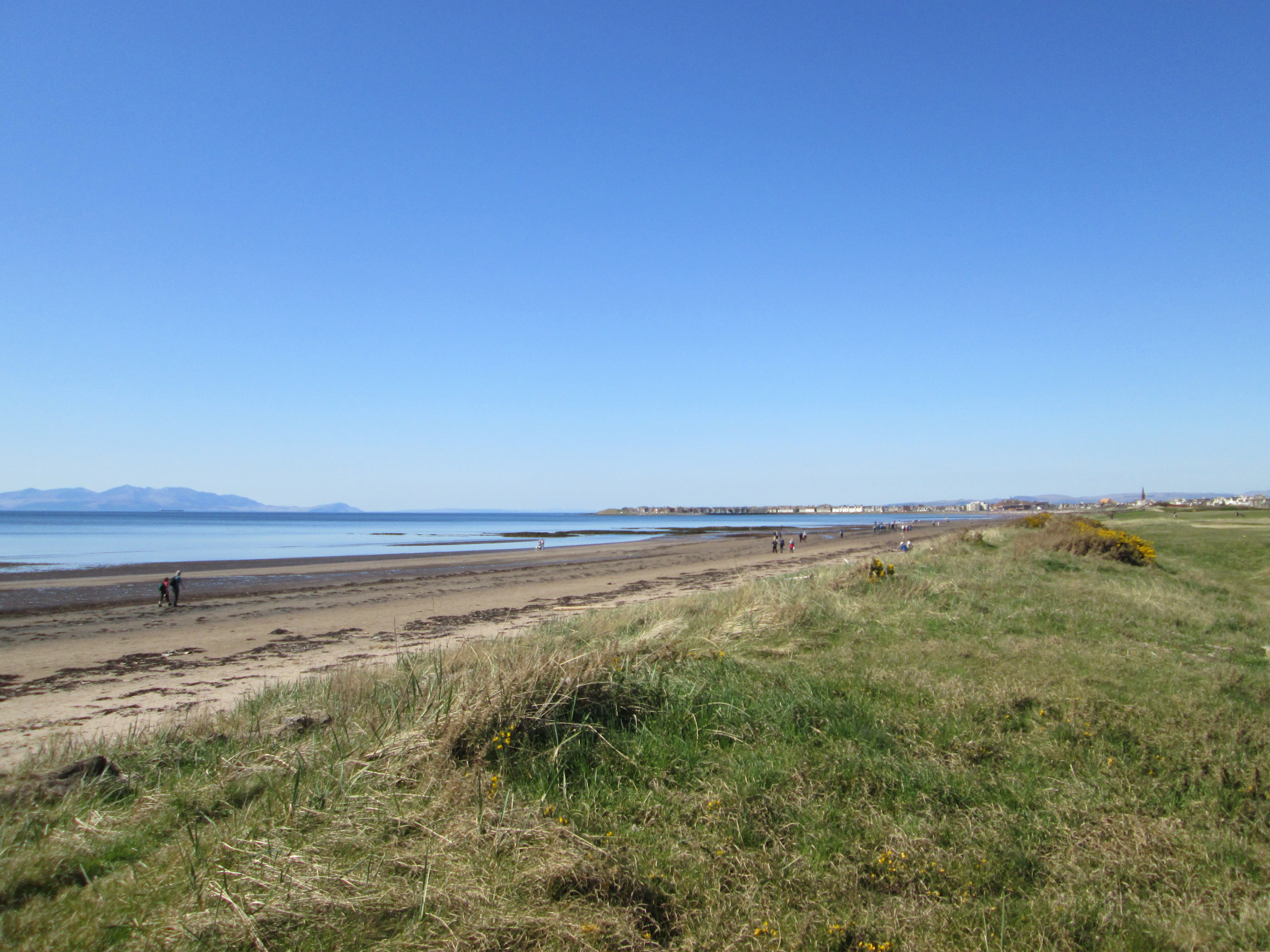 View from top of sand dunes forming the perimeter of the Royal Troon Golf Club course, looking out over the Firth of Clyde towards the Isle of Arran and north over South Sands and South Bay to Troon.